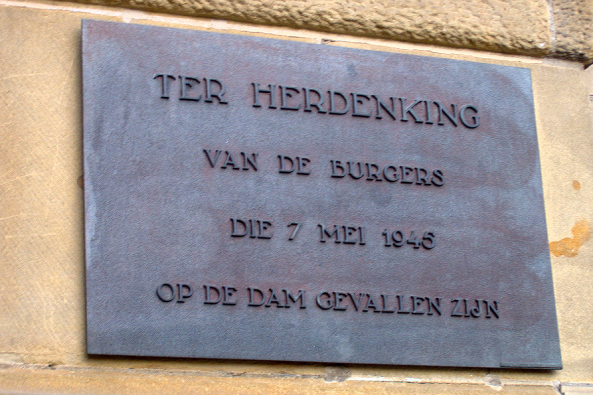 Commemorative plaque on Dam Square (on the corner of Kalverstraat) in Amsterdam, to commemorate the victims of the shooting on May 7, 1945.